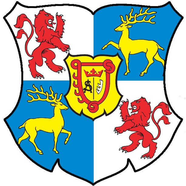 Coat of Arms of House of Kettler, Dukes of Courland and Semigallia